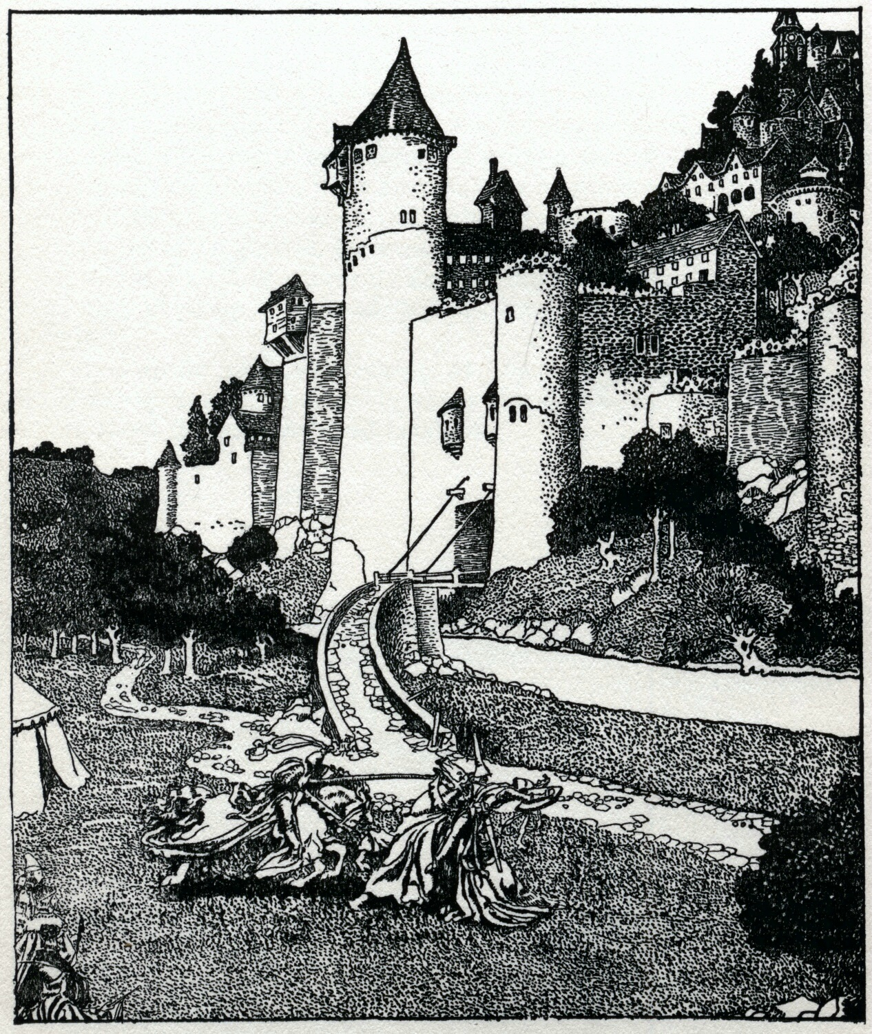 Howard Pyle illustration from the 1903 edition of The Story of King Arthur and His Knights scanned and archived at where it was marked as Public Domain.